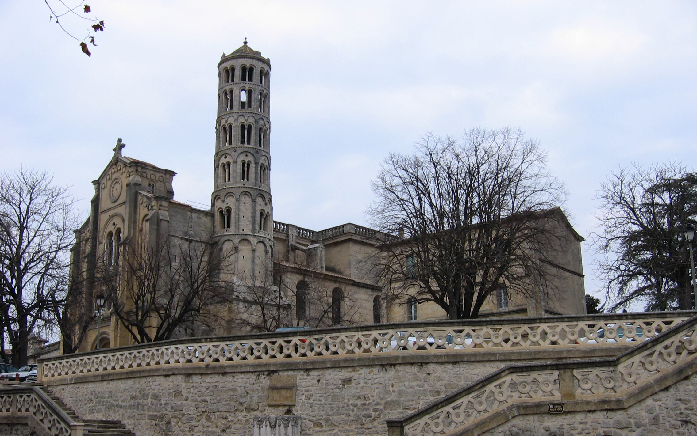 Uzès - Castle : Cathedral Saint Théodorit.